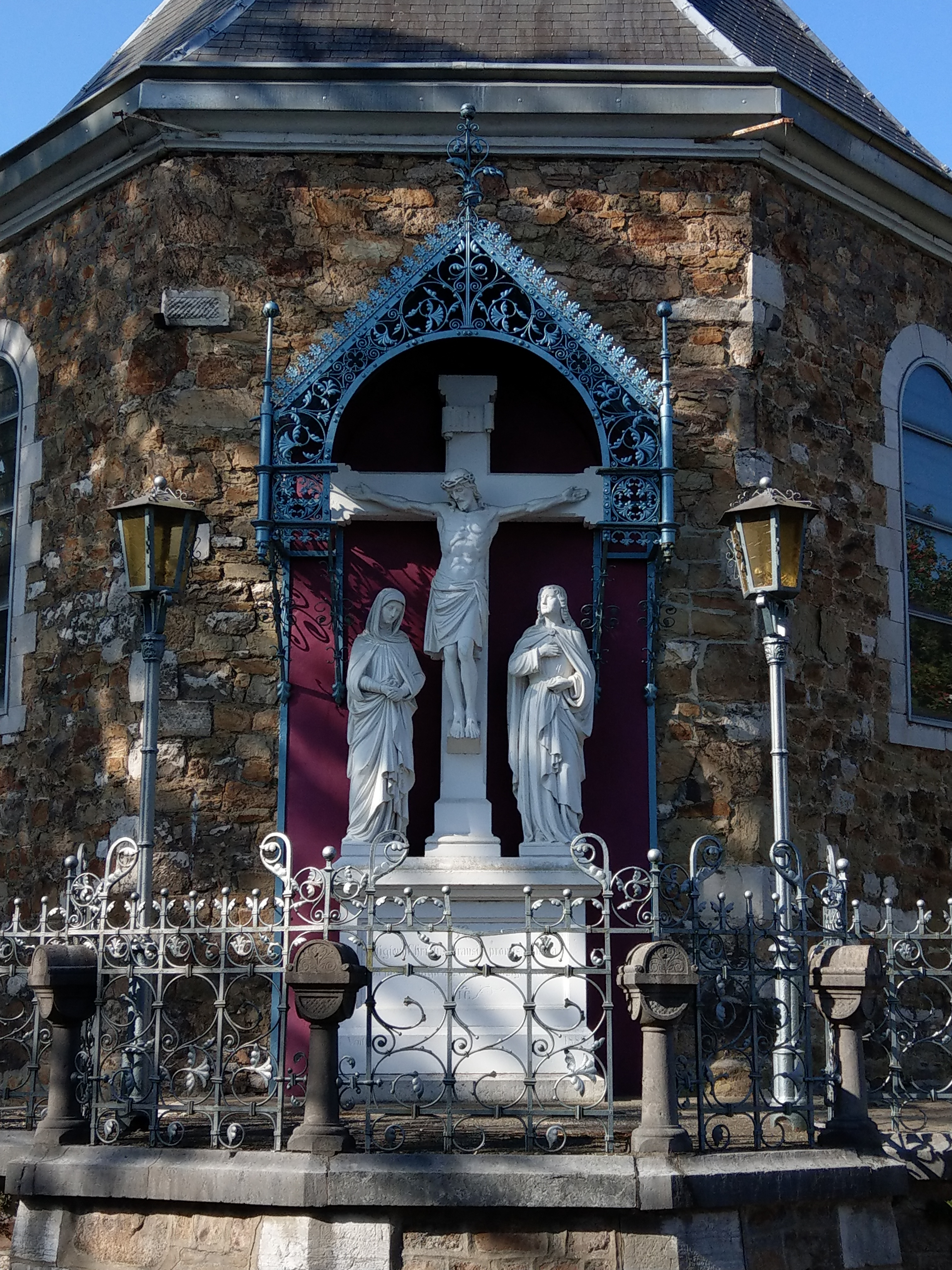 History and date, see category.